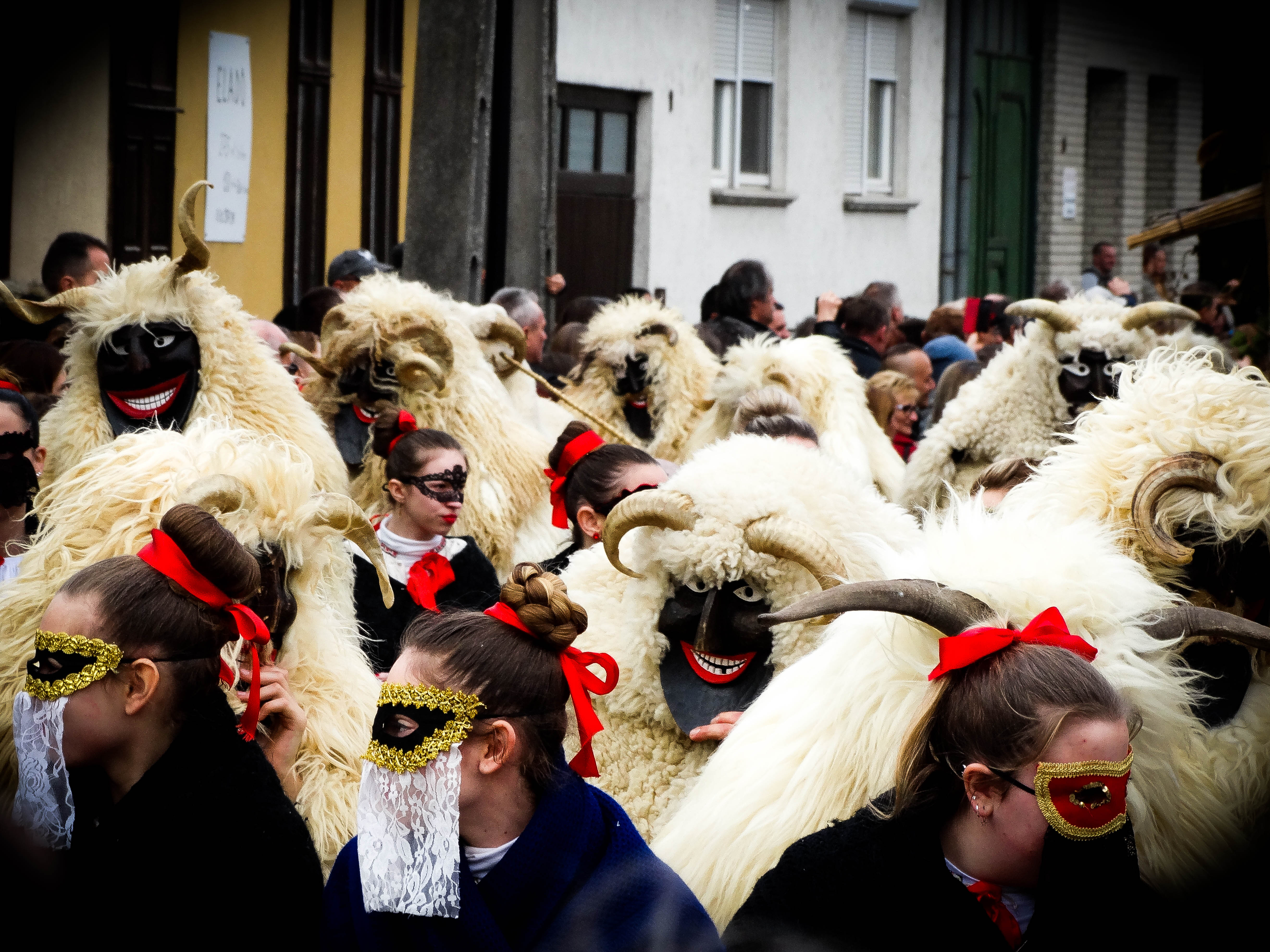 This photo has been taken in the country: Hungary